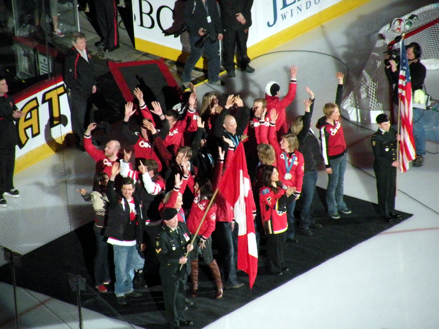 The National Hockey League's Calgary Flames honour several athletes and medal winners from the Canadian team at the 2010 Winter Olympics.